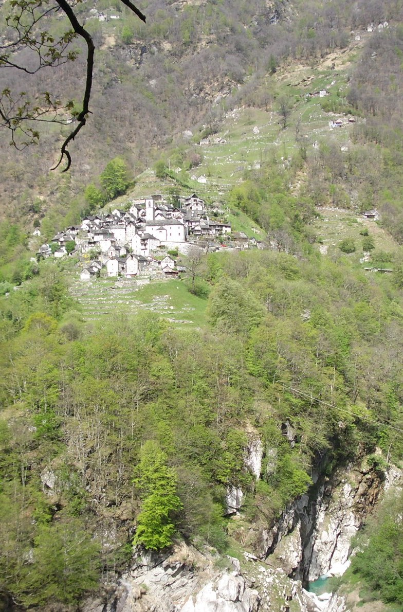 Corippo, Valle Verzasca, Switzerland self-made, May 2006